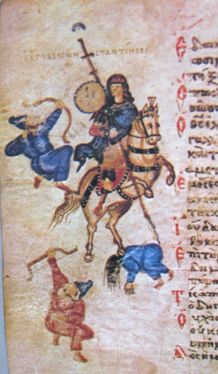 Constantinus I Magnus from Chludov Psalter